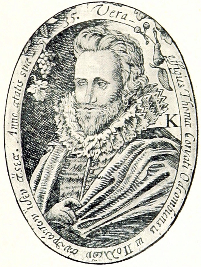 Image taken from: Title: "Bombay and Western India. A series of stray papers" Author: DOUGLAS, James - of Bombay Shelfmark: "British Library HMNTS 010056.h.10.", "British Library OC ORW.1986.a.2990" Volume: 01 Page: 371 Place of Publishing: London Date of Publishing: 1893 Publisher: Sampson Low & Co. Issuance: monographic Identifier: 000973604 Explore: Find this item in the British Library catalogue, 'Explore'. Open the page in the British Library's itemViewer (page image 371) Download the PDF for this book Image found on book scan 371 (NB not a pagenumber)Download the OCR-derived text for this volume: (plain text) or (json) Click here to see all the illustrations in this book and click here to browse other illustrations published in books in the same year. Order a higher quality version from here.